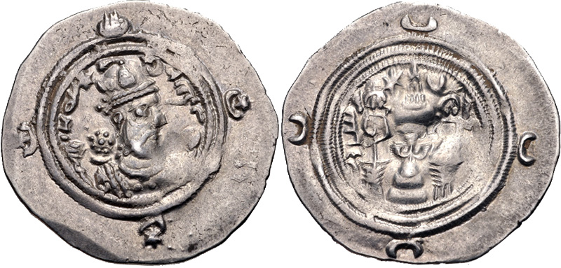 Coin of Khosrow II in 590, the same year he is forced to flee into exile due to Bahram Chobin's rebellion. He is not wearing his iconic crown with wings on this coin.